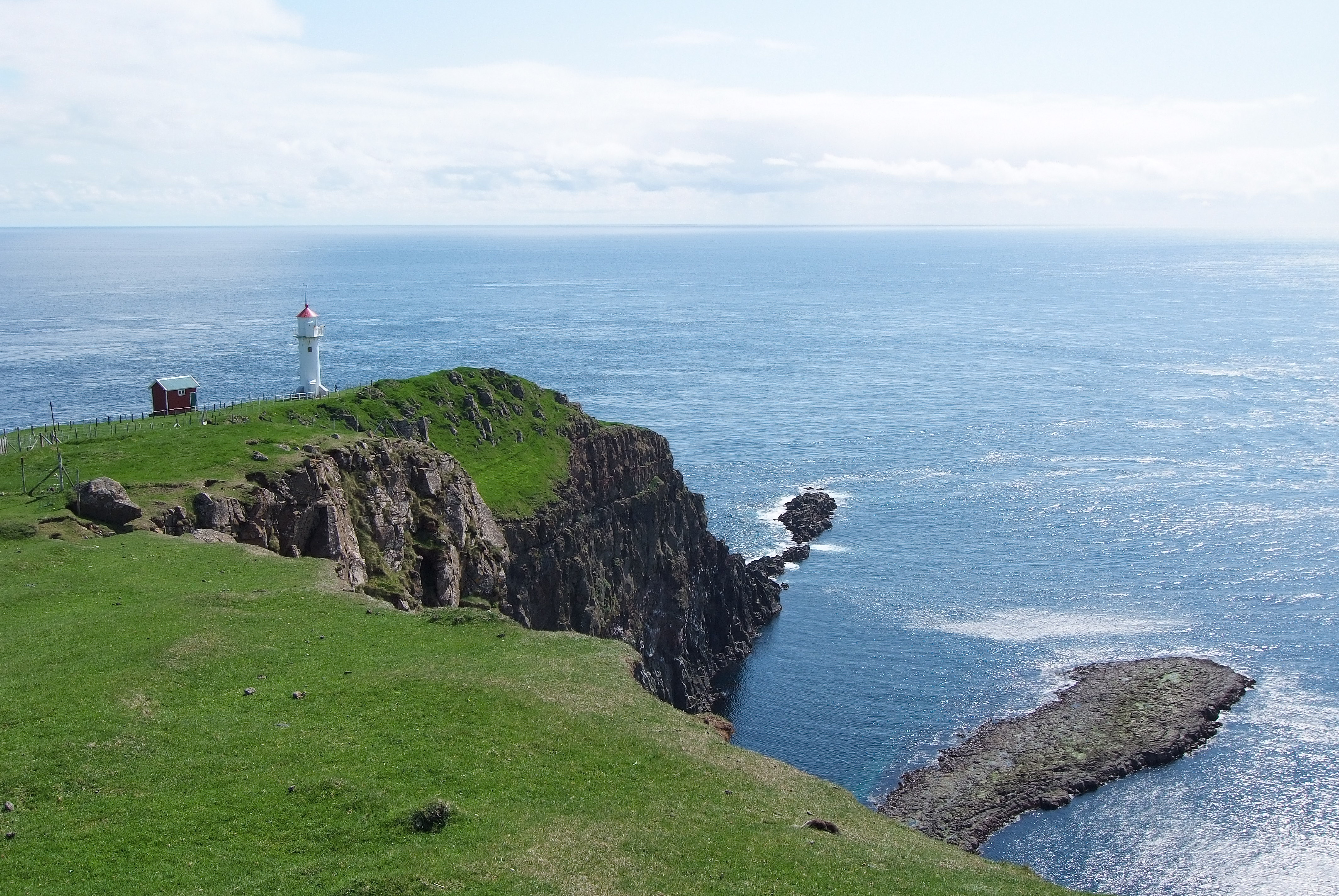 Akraberg Lighthouse. At the south tip of Suðuroy, Faroe Islands.